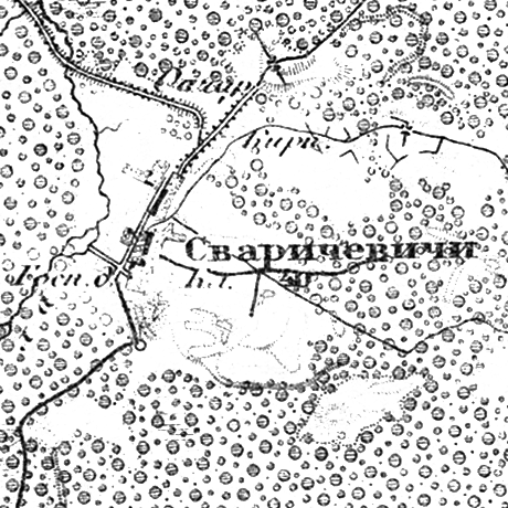 Svarytsevychi on the map "Военно-топографическая карта Российской Империи" (known as "Schubert's map"), XX 5, 1866-1887 (issued in 1911).